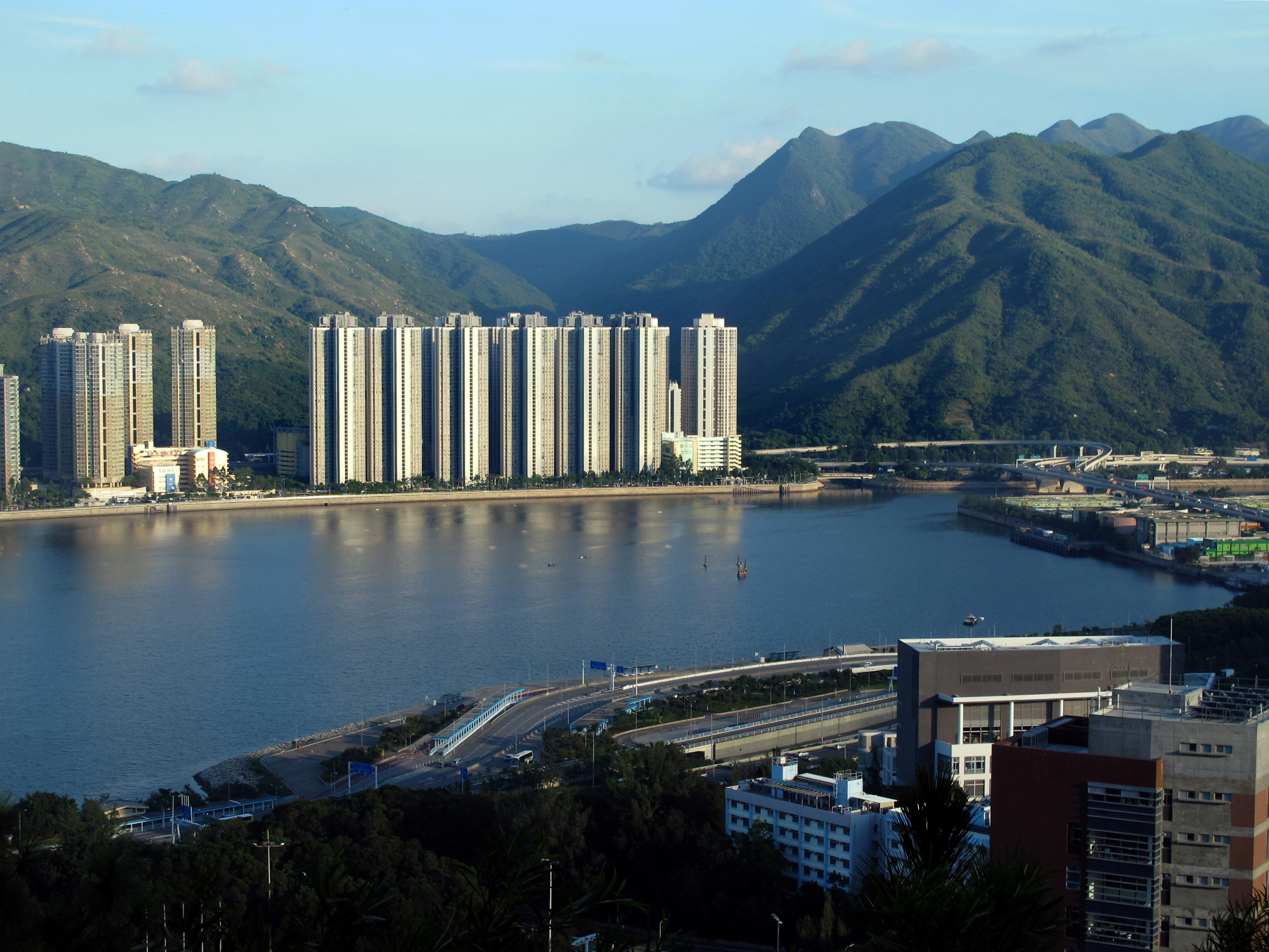 Shing Mun River near Sha Tin Hoi